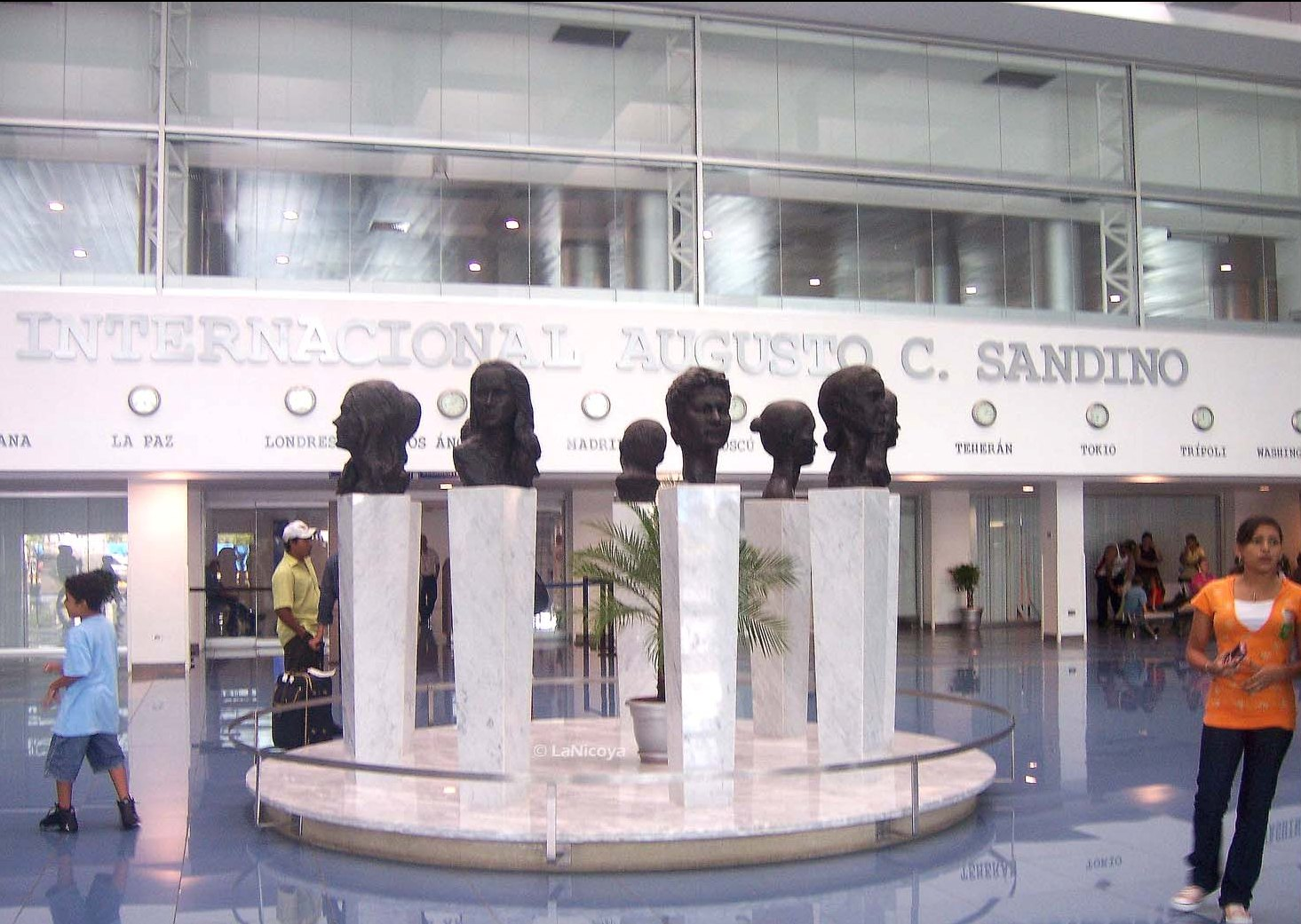 This is a beautiful piece in the center of the waiting lobby in the Augusto C. Sandino International Airport in Managua, Nicaragua, which is the most modern airport in Central America.